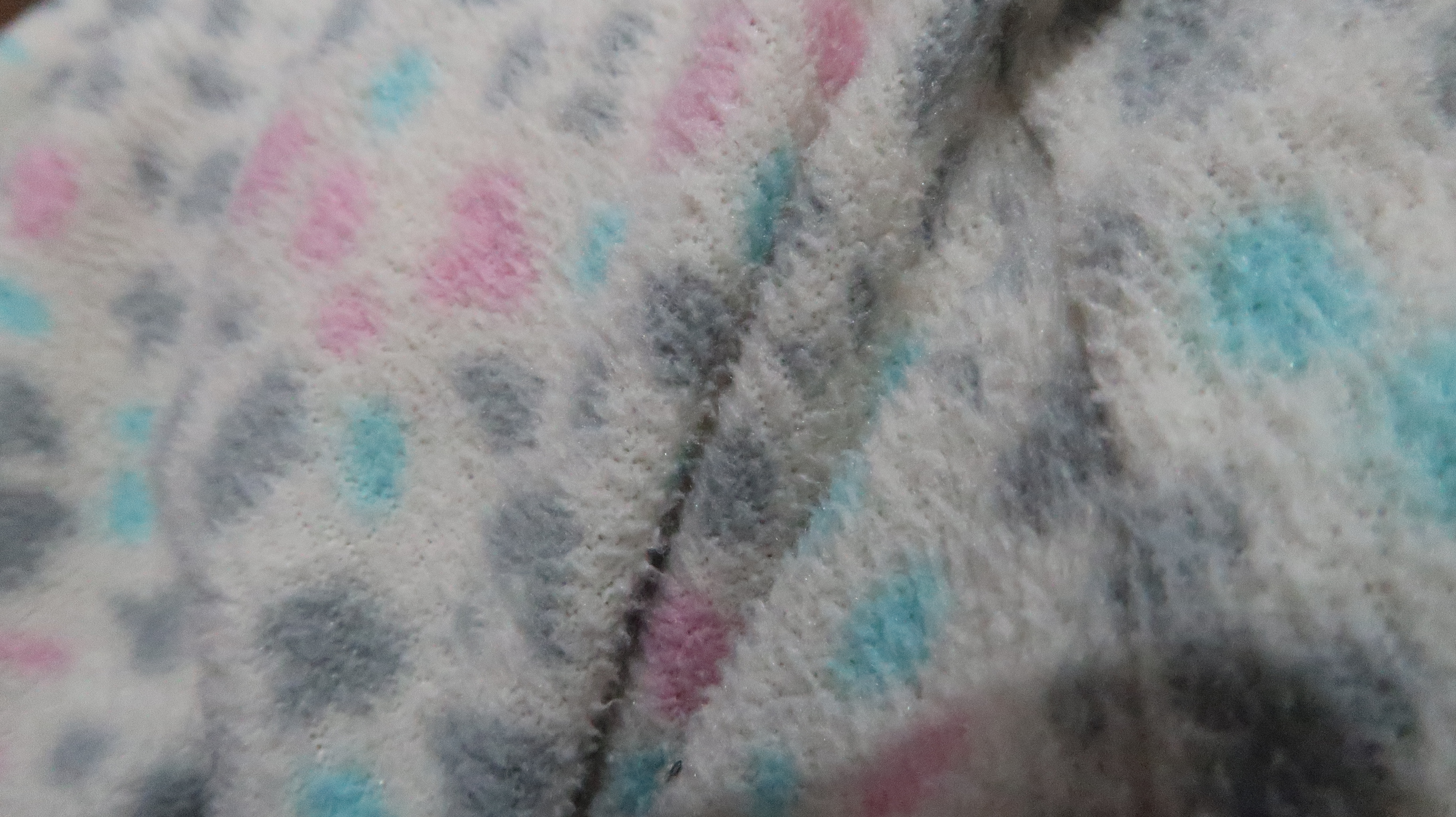 Textured